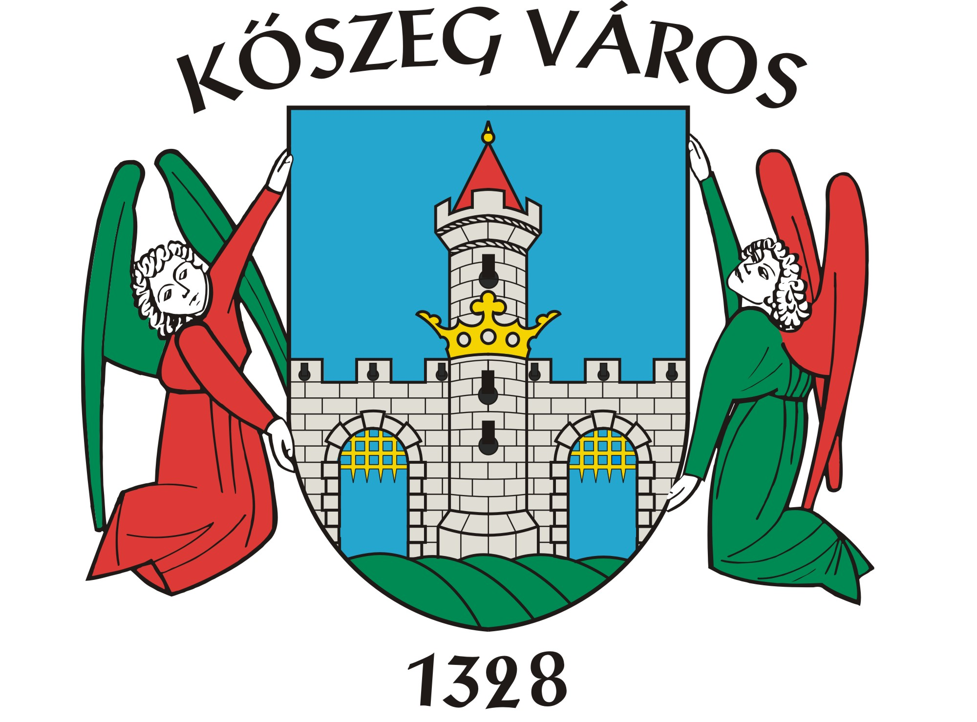 Coat of arms of Kőszeg, Hungary